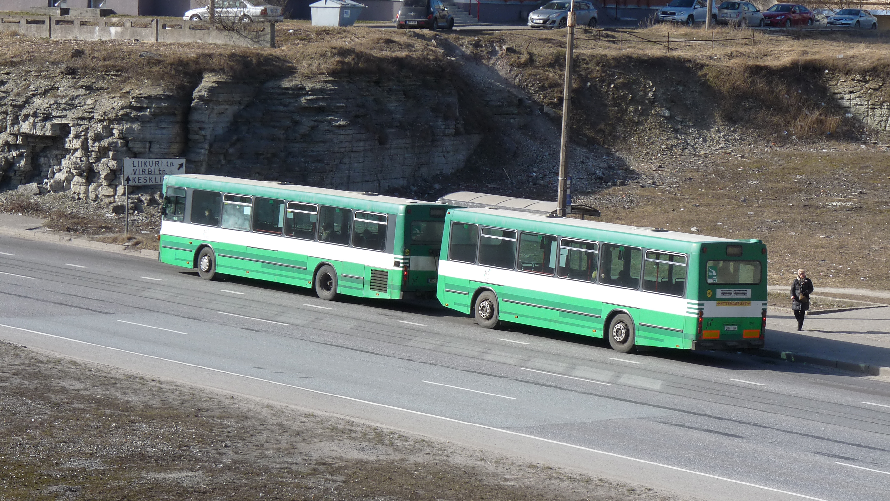 Public bus with trailer in Tallinn, Estonia